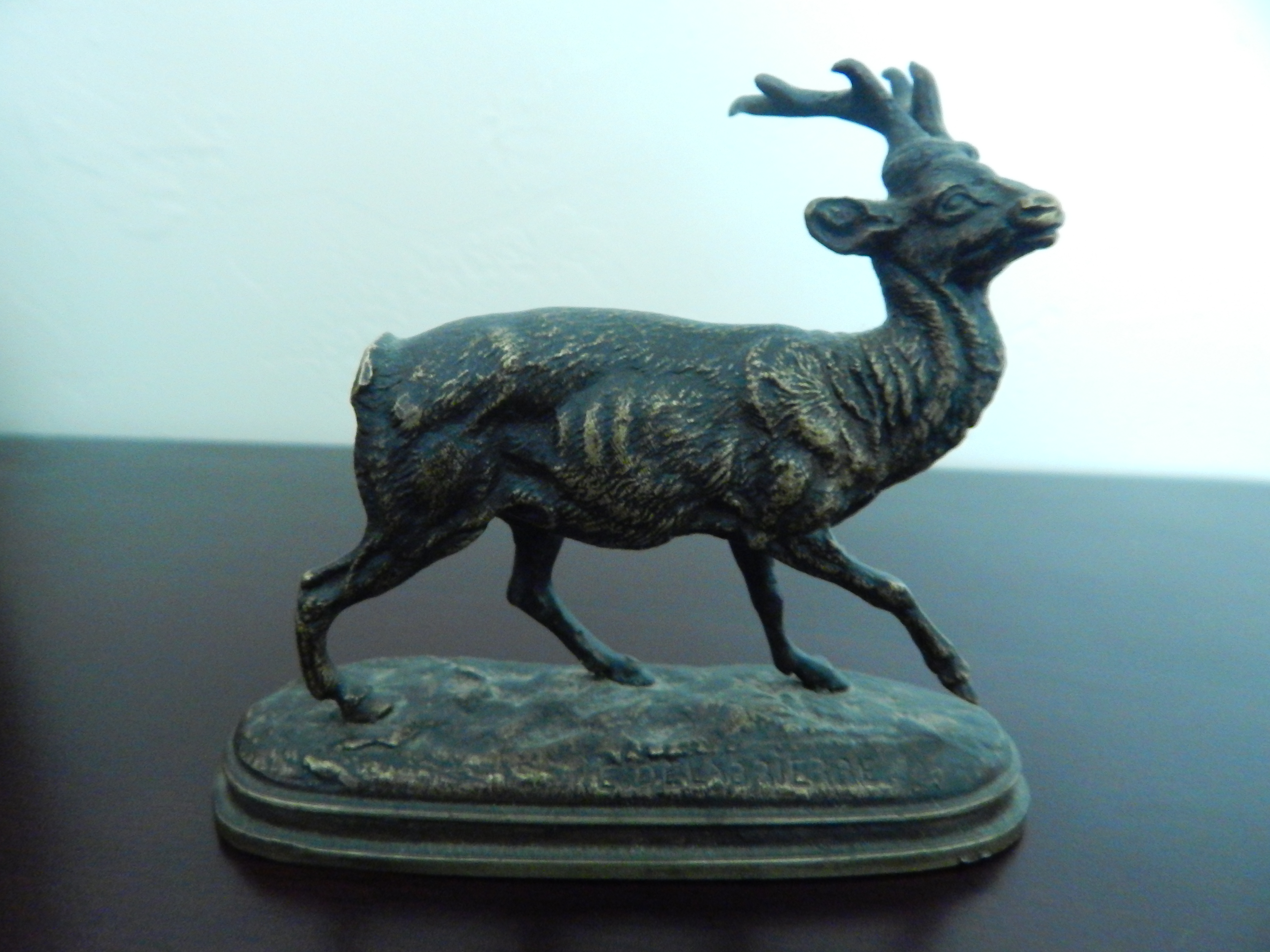 A circa 1864 bronze sculpture of a chamois by French sculptor Paul-Edouard Delabrierre (1829-1935).